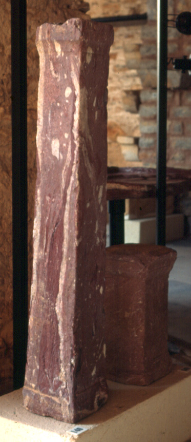 Marble "cipollino rosso" or marmor iassensis (ancient roman marble) in the museum of Iasos (Caria), in Turkey